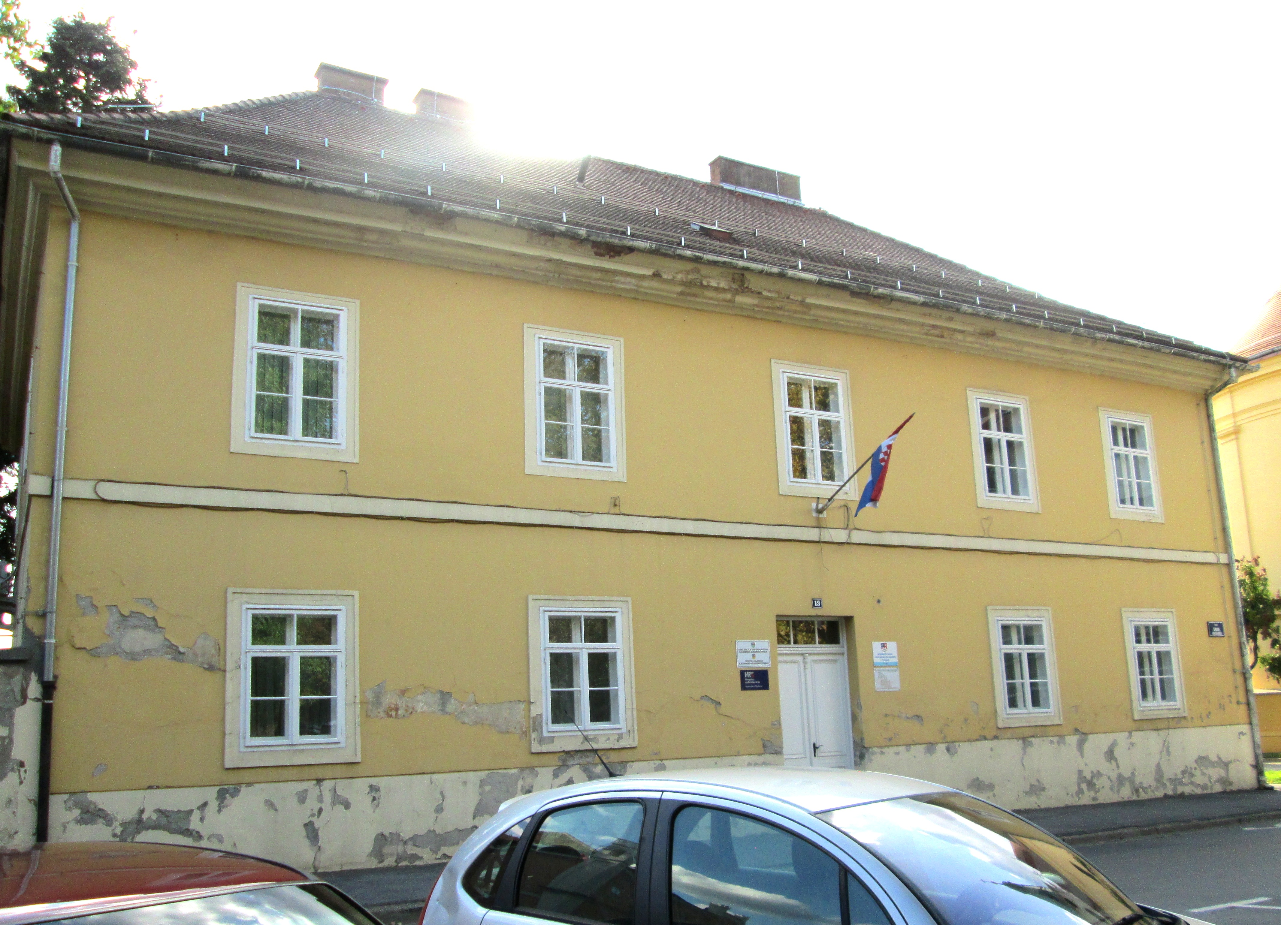 Ex Secondary School in Bjelovar, Croatia. This is a a photo of a cultural heritage in Croatia with ID:Z-2449